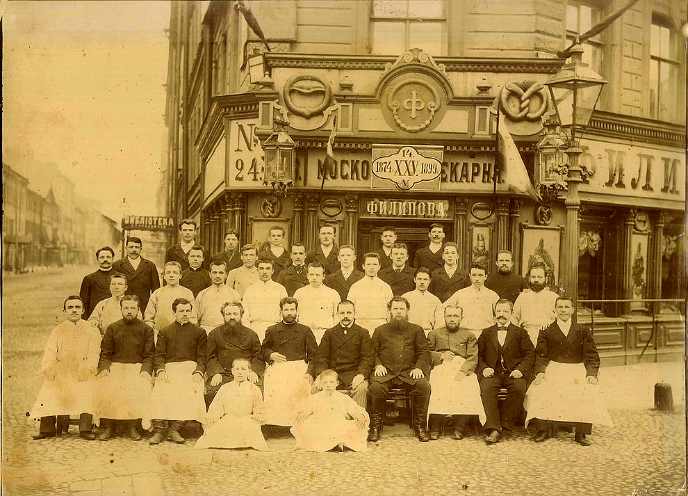 Saint Petersburg. Filippov's Moscow bakery (63 Sadovaya street) (photo in honor of the 25th anniversary of Filippov's bakeries.). May 1899.